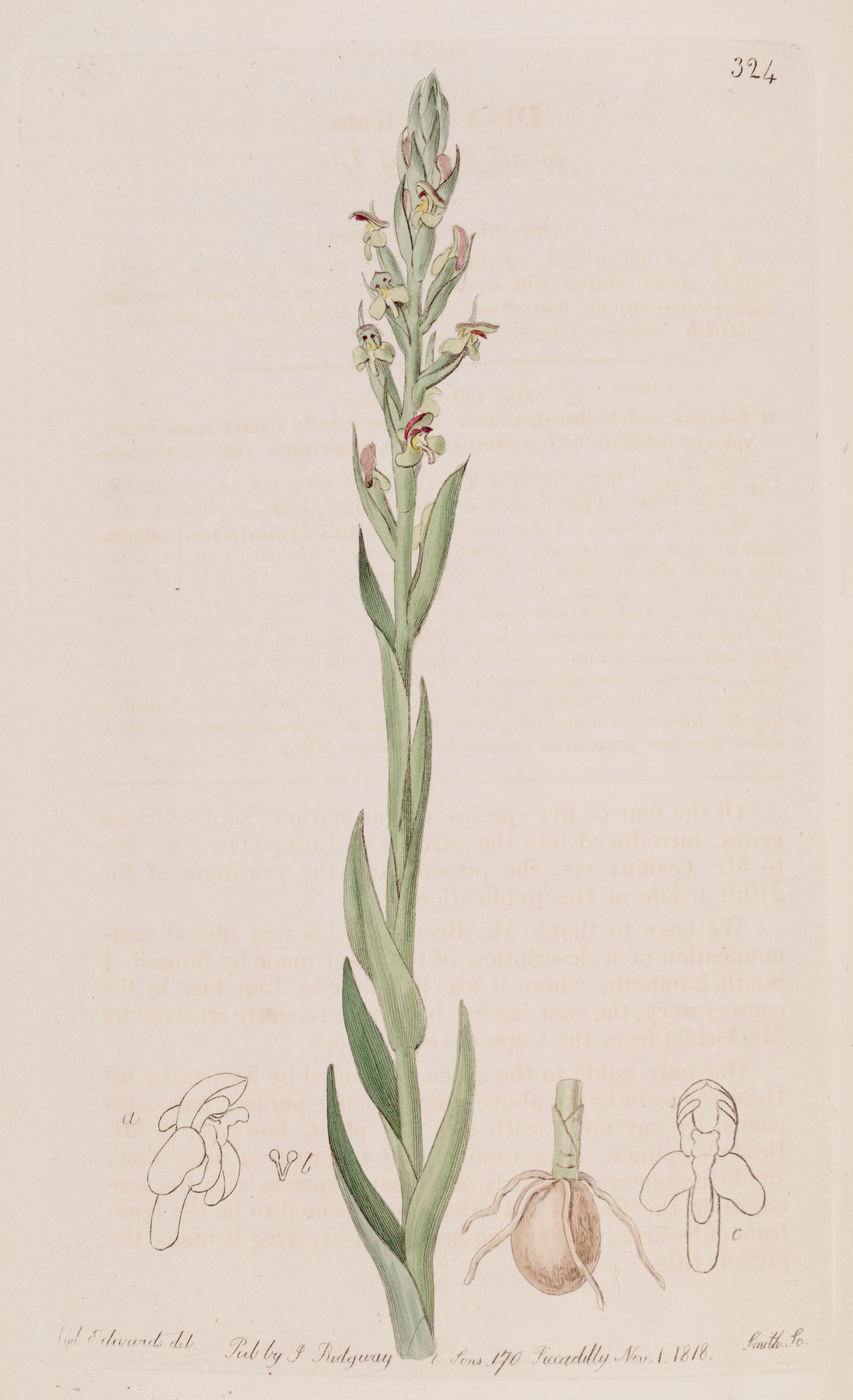 Illustration of Disa bracteata